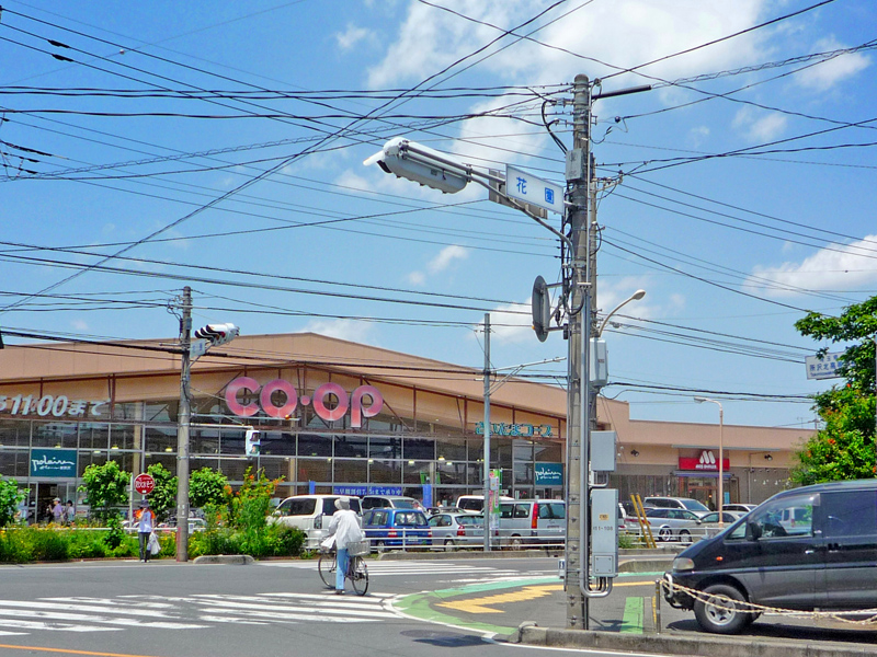 Hanazono, means "flower garden", - in Tokorozawa city, Japan.